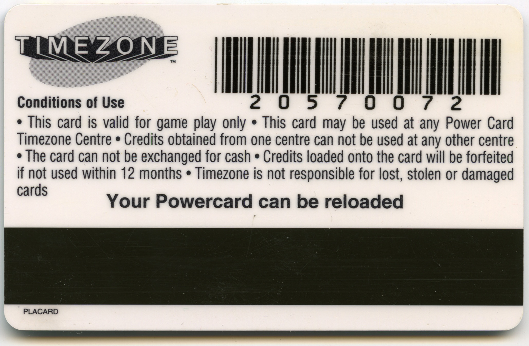 Timezone Card Australia (Back)